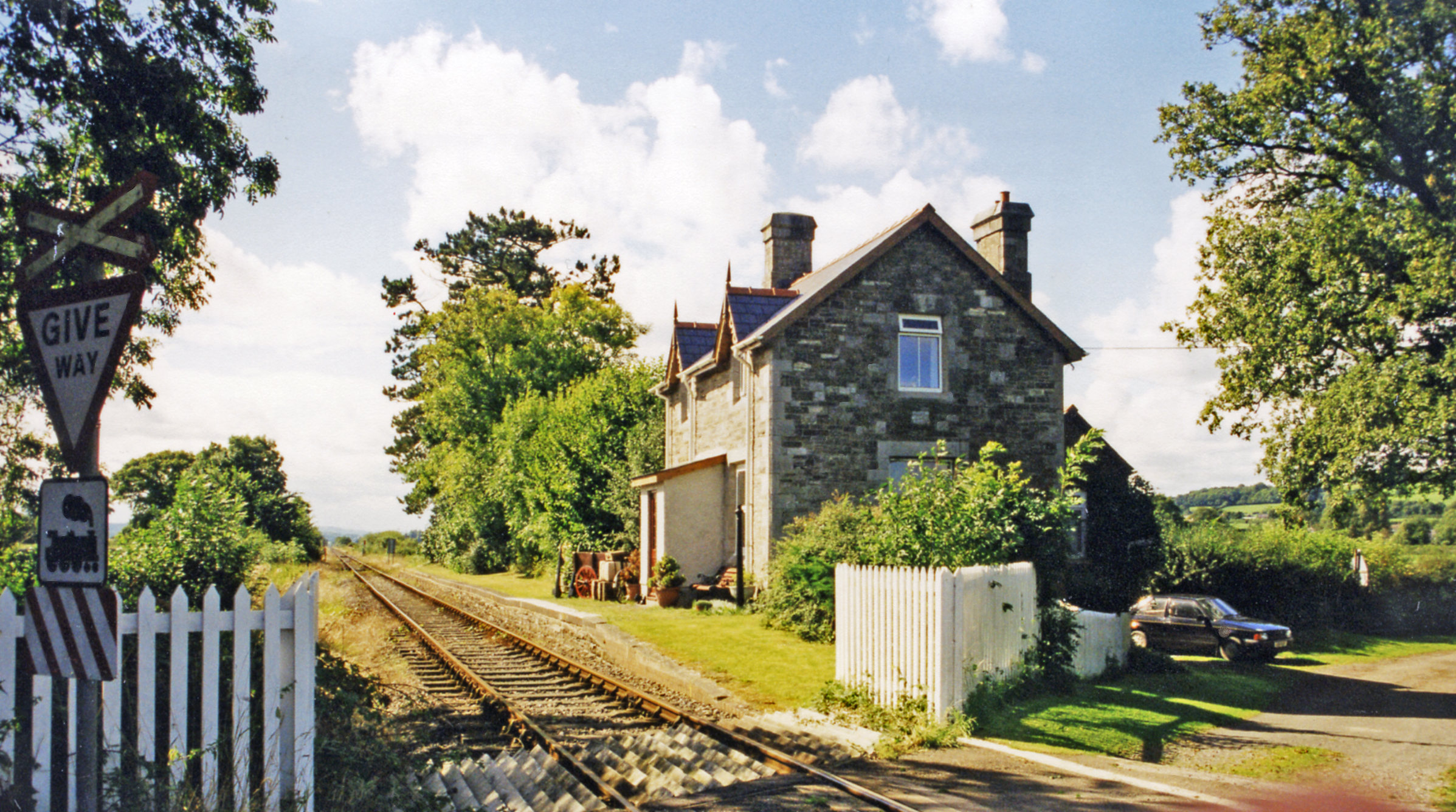 Glanrhyd station (remains), 1999. View SW, towards Llandeilo and Llanelli/Swansea: ex-GW&LNW Joint Vale of Towy section of the ex-LNW/GW Mid-Wales route, Craven Arms - Swansea. The station was closed 7/3/55, and the house is in private occupation. The line has survived as the 'Heart of Wales' route, with trains running via Llanelli(reverse) to Swansea High Street after the ex-LNW Pontardulais - Swansea Victoria line was closed on 15/6/64.